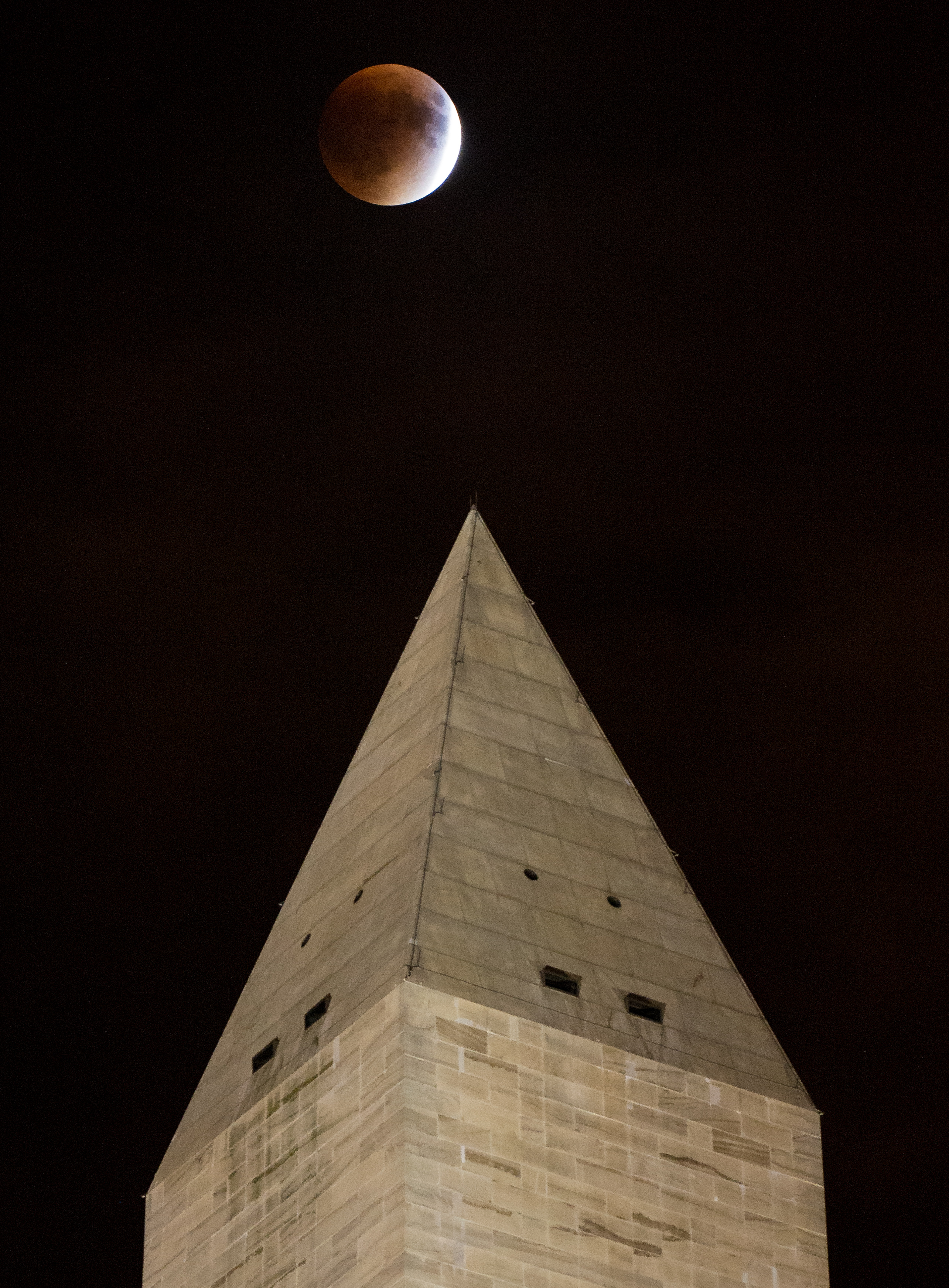 A perigee full moon, or supermoon, is seen behind the Washington Monument during a total lunar eclipse on Sunday, September 27, 2015, in Washington, DC. The combination of a supermoon and total lunar eclipse last occurred in 1982 and will not happen again until 2033. Photo Credit: (NASA/Aubrey Gemignani)